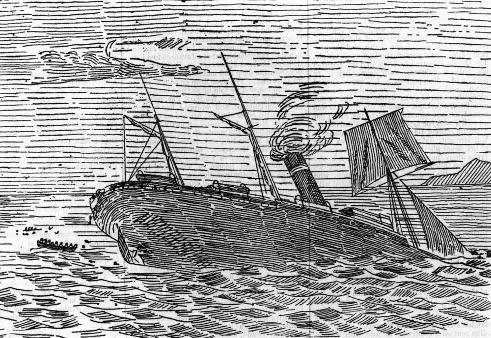 Drawing of RMS Quetta sinking in the Torres Strait